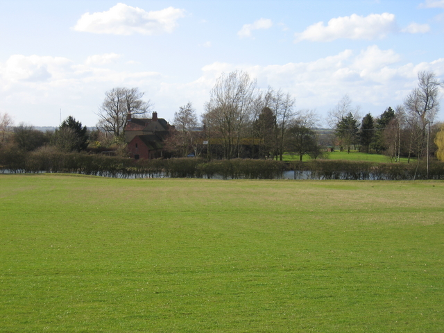 Stoneton Manor. Nicely protected by trees on this otherwise wide open plain, and with its own large pond.